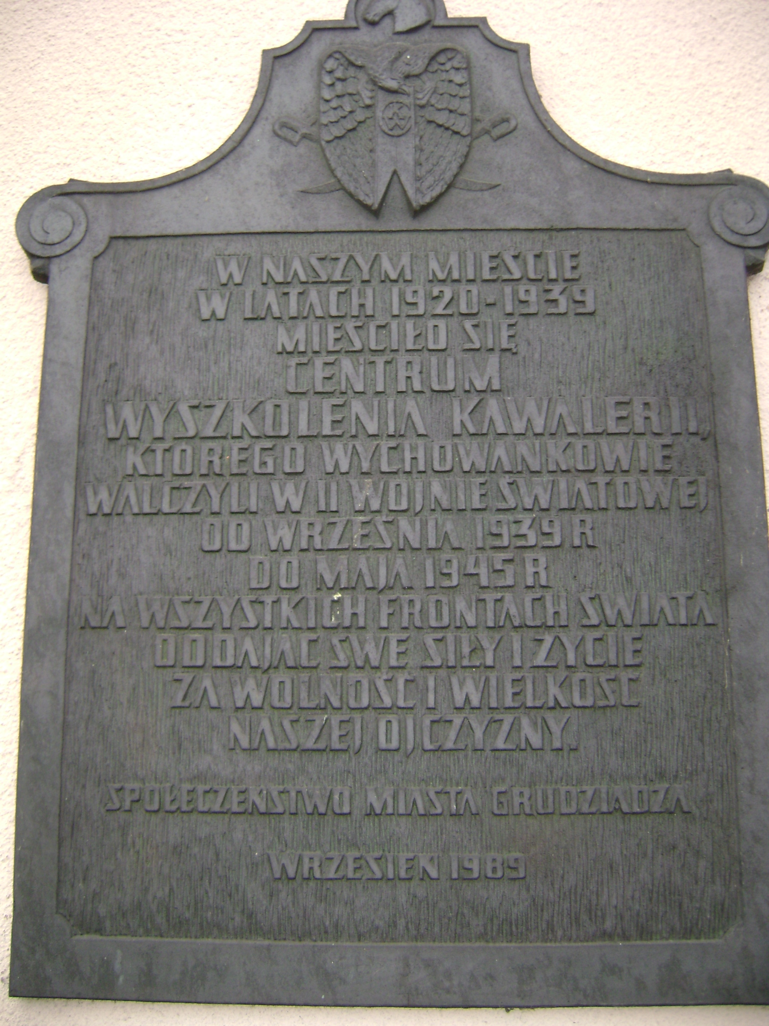 Plaque of Centrum Wyszkolenia Kawalerii in Grudziądz